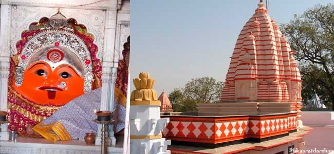 gadkalika temple ujjain